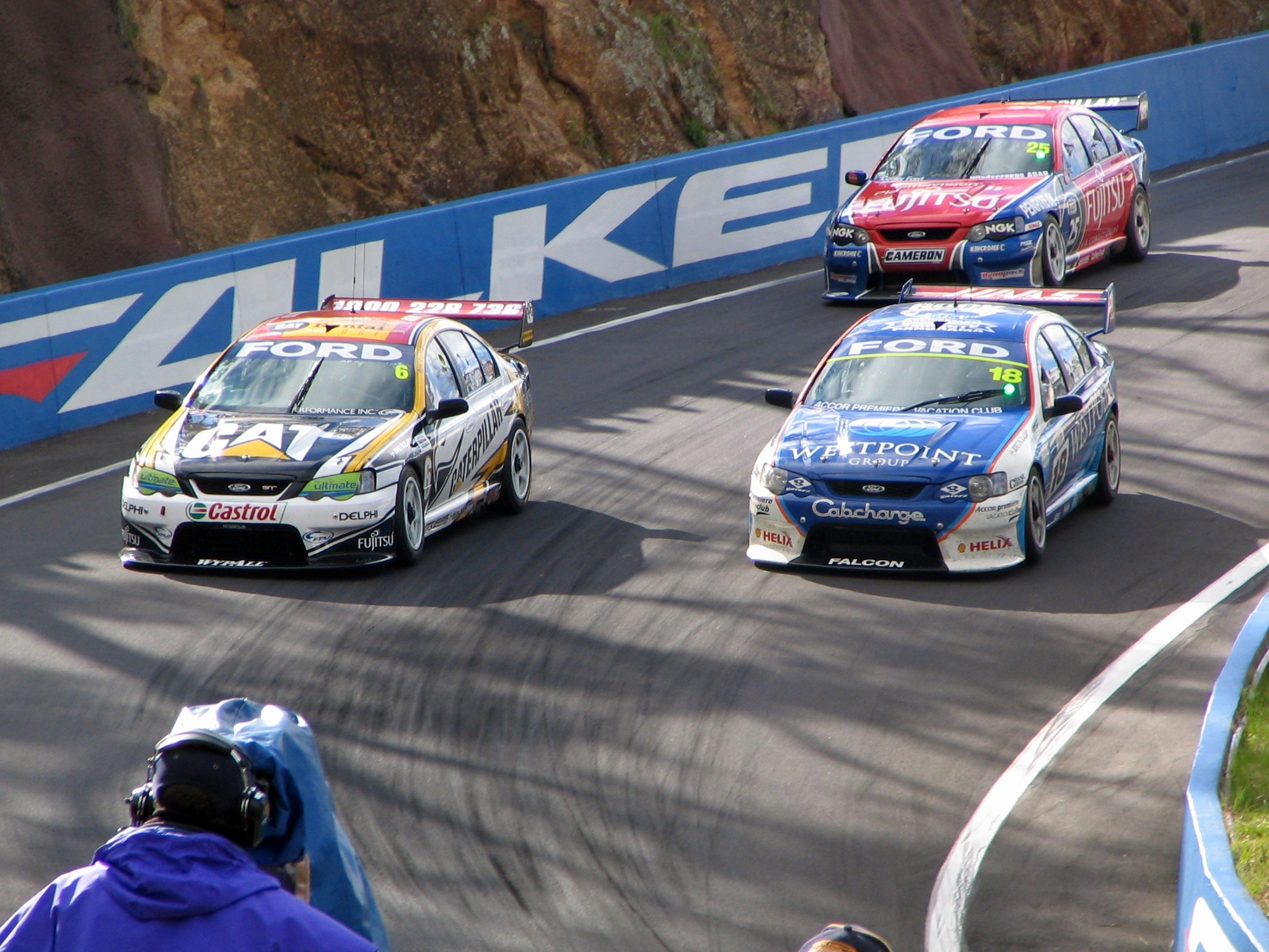 Bathurst 1000 at the Mount Panorama Circuit in Australia